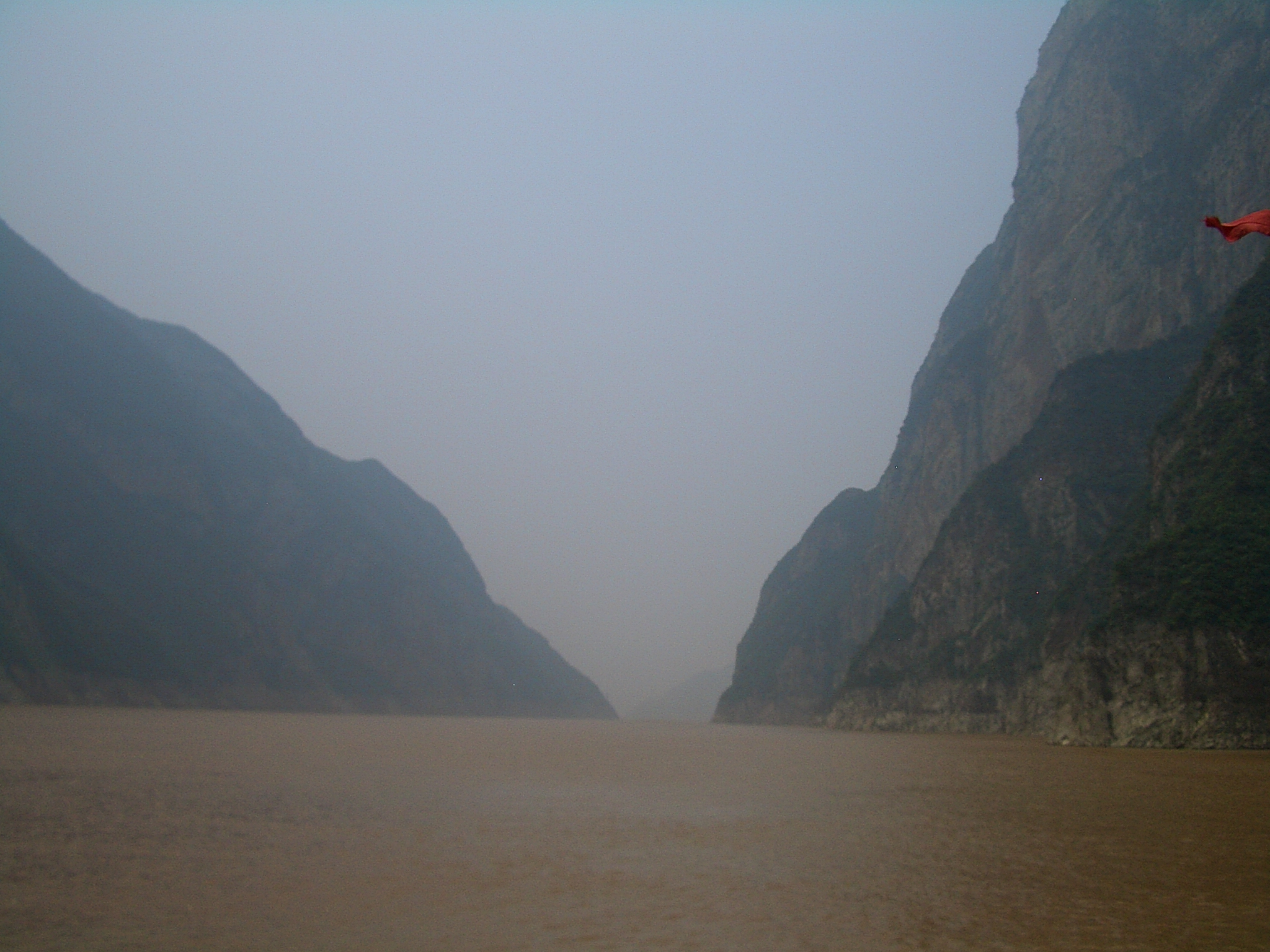 Xiling Gorge (of) and Chang Jiang (Yangtze River). between Xiangxi and Qu Yuan Town (named after Qu Yuan, who lived nearby) in Hubei's Zigui County.